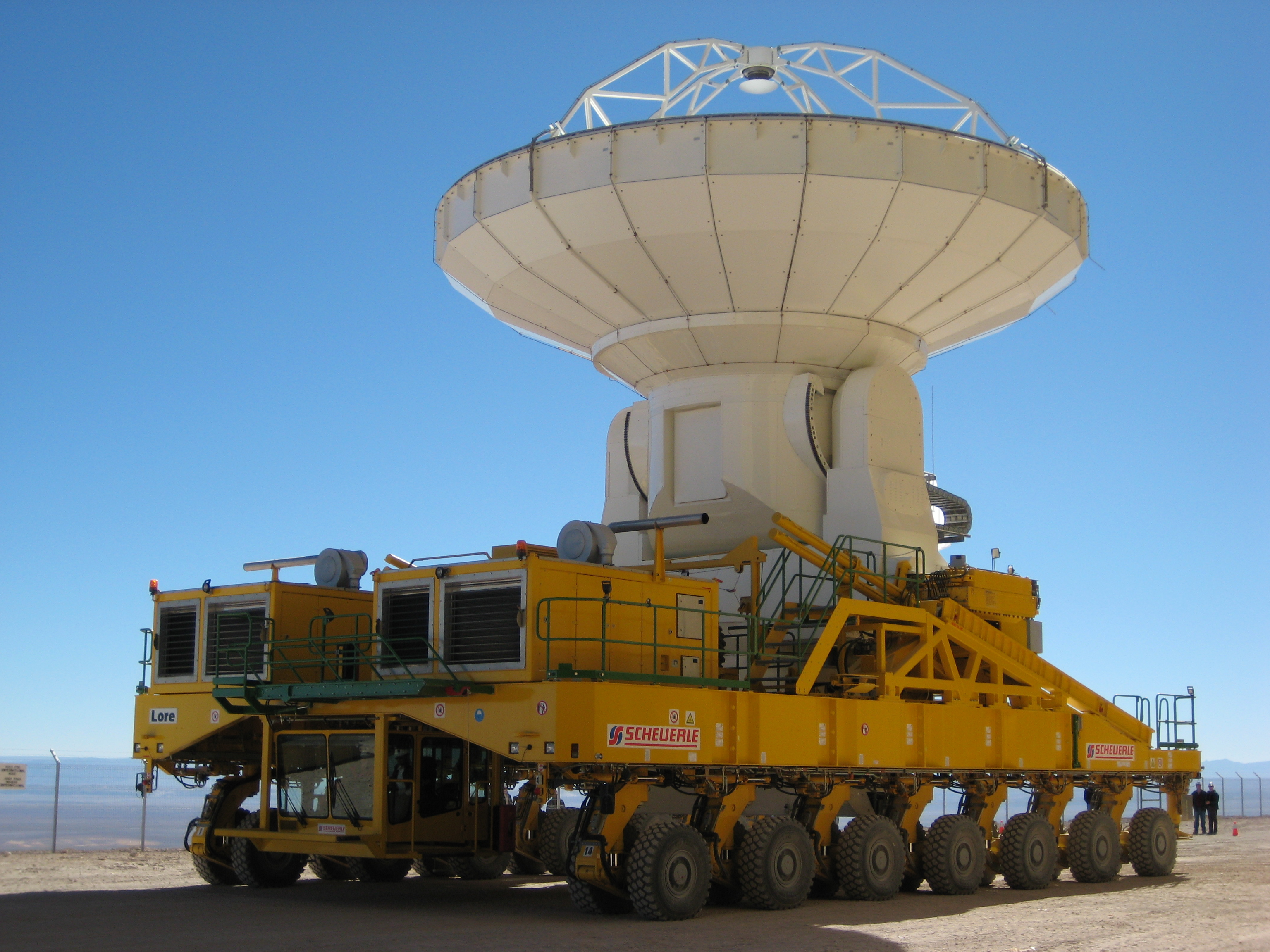 The first successful movement of an ALMA antenna took place at the Operations Support Facility (OSF) on 8 July 2008. The antenna transporter "Lore", one of the two units manufactured by Scheuerle under contract by ESO and delivered recently at the OSF, has been used to move one 12-m antenna from their site erection facility to an external antenna pad for sky testing.